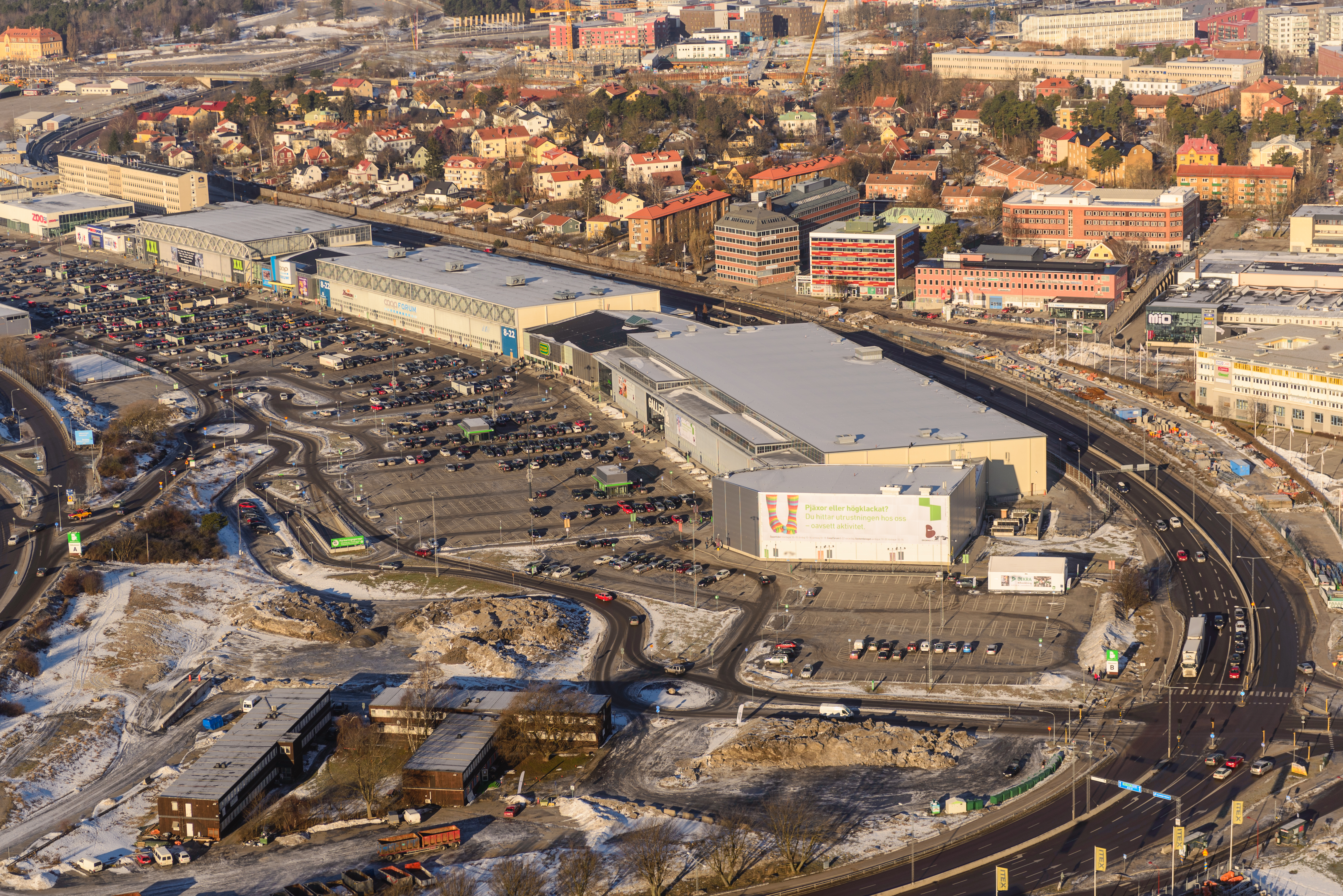 Bromma Blocks